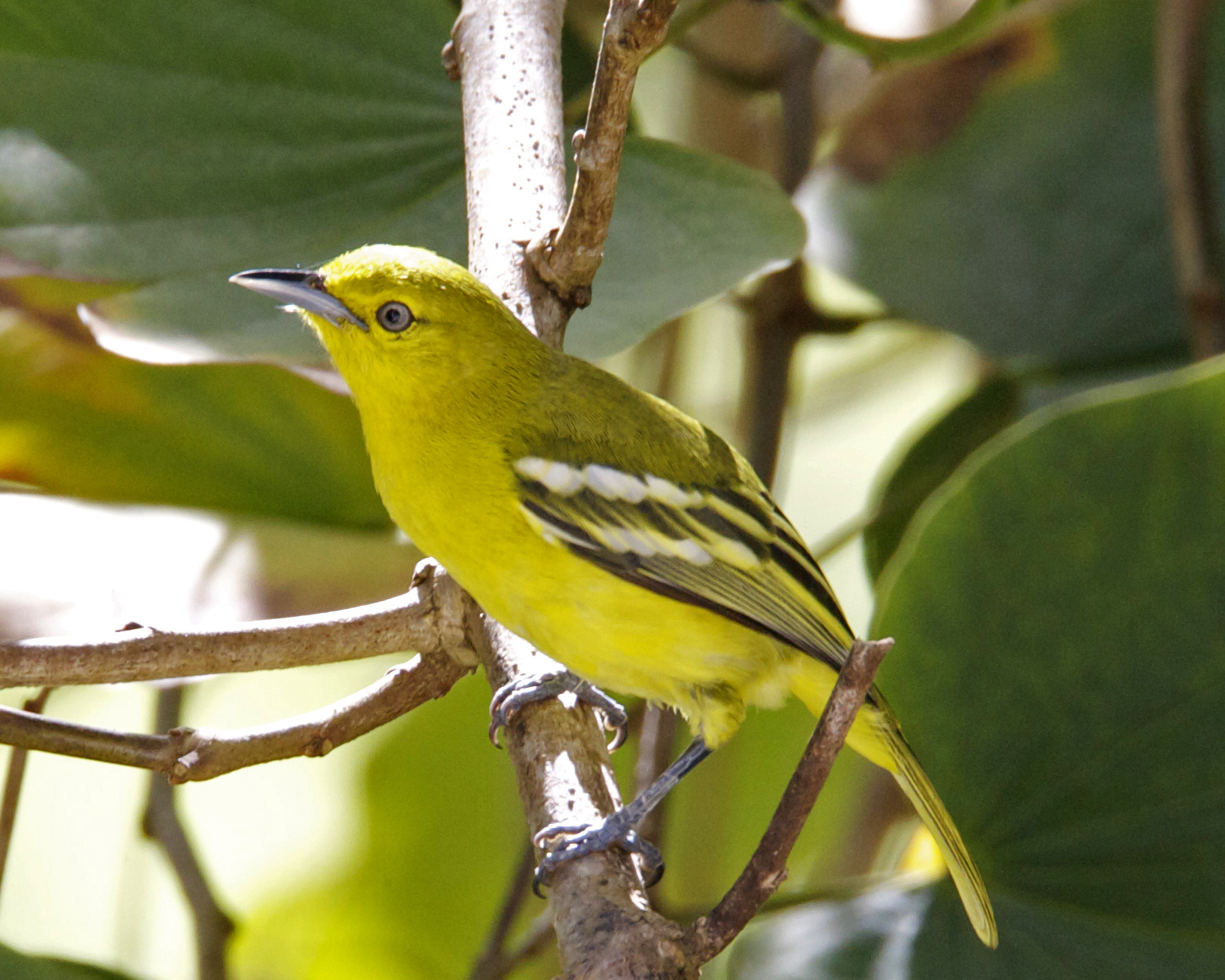 Common Iora Aegithina tiphia ssp Aegithina tiphia scapularis Nusa Dua, Bali, Indonesia 31st. July 2010 690V6886